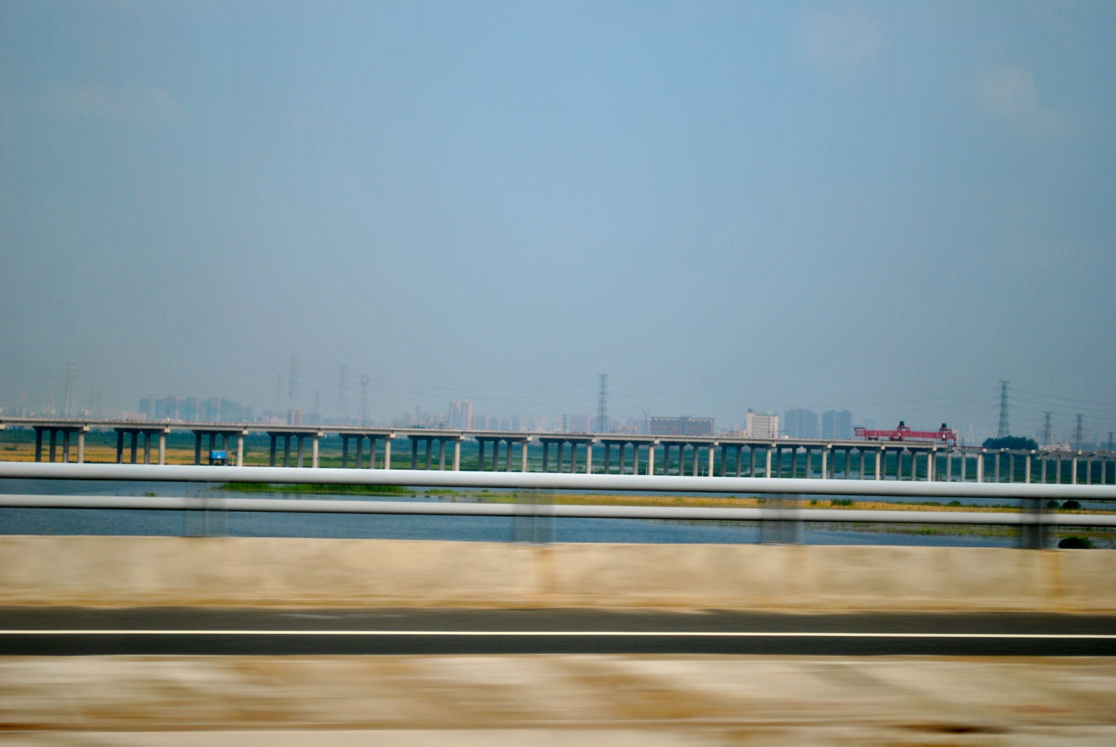 Wuhan Tianhe Airport 2nd Expressway